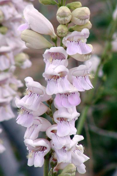 Photo of Penstemon palmeri in Red Rock Canyon, Nevada